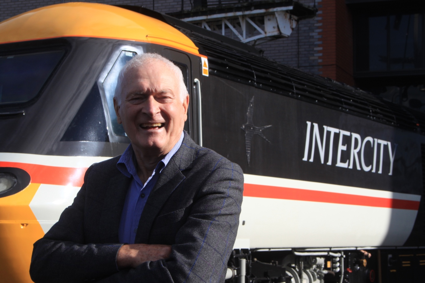 Sir Kenneth Grange at the National Railway Museum, York, in 2016 during an event to celebrate 40 years' service of the InterCity 125 which he helped design. Power car 43185 has just been restored to the INTERCITY livery carried from the 1980s.